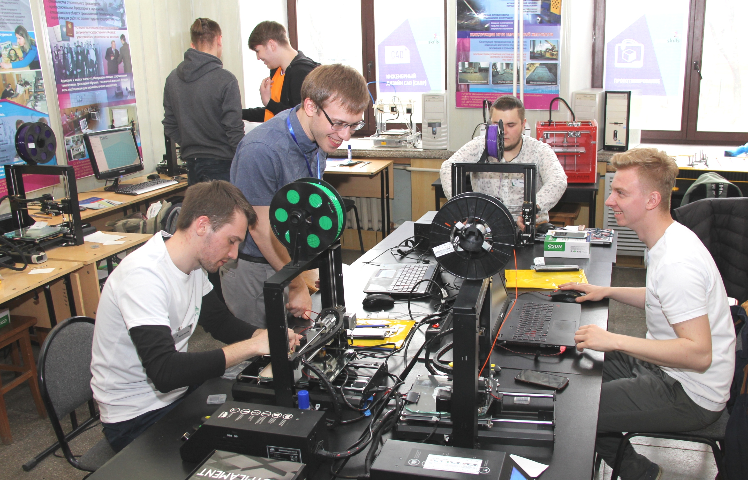 Student's scientific community design department of FESTU